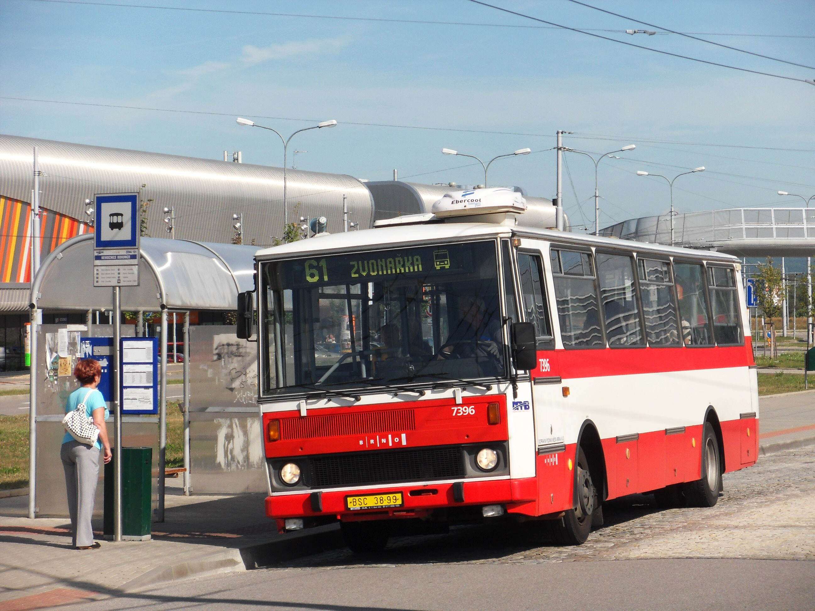 Karosa B 732 bus No. 7396 of Dopravní podnik města Brna, Brno, Czech Republic